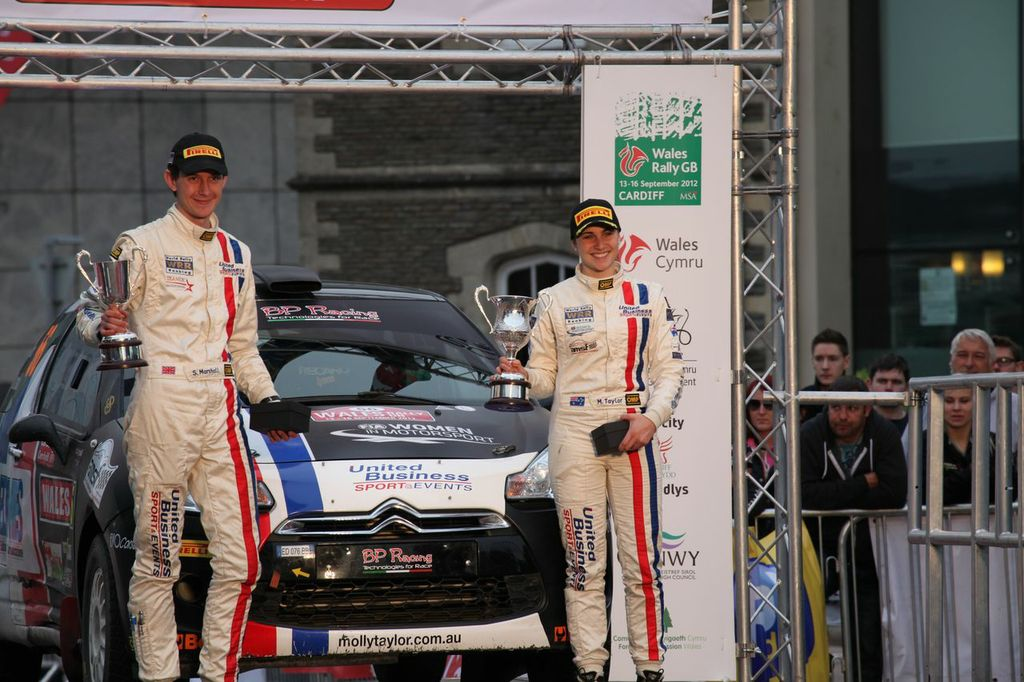 Podium Finish for rally car driver Molly Taylor